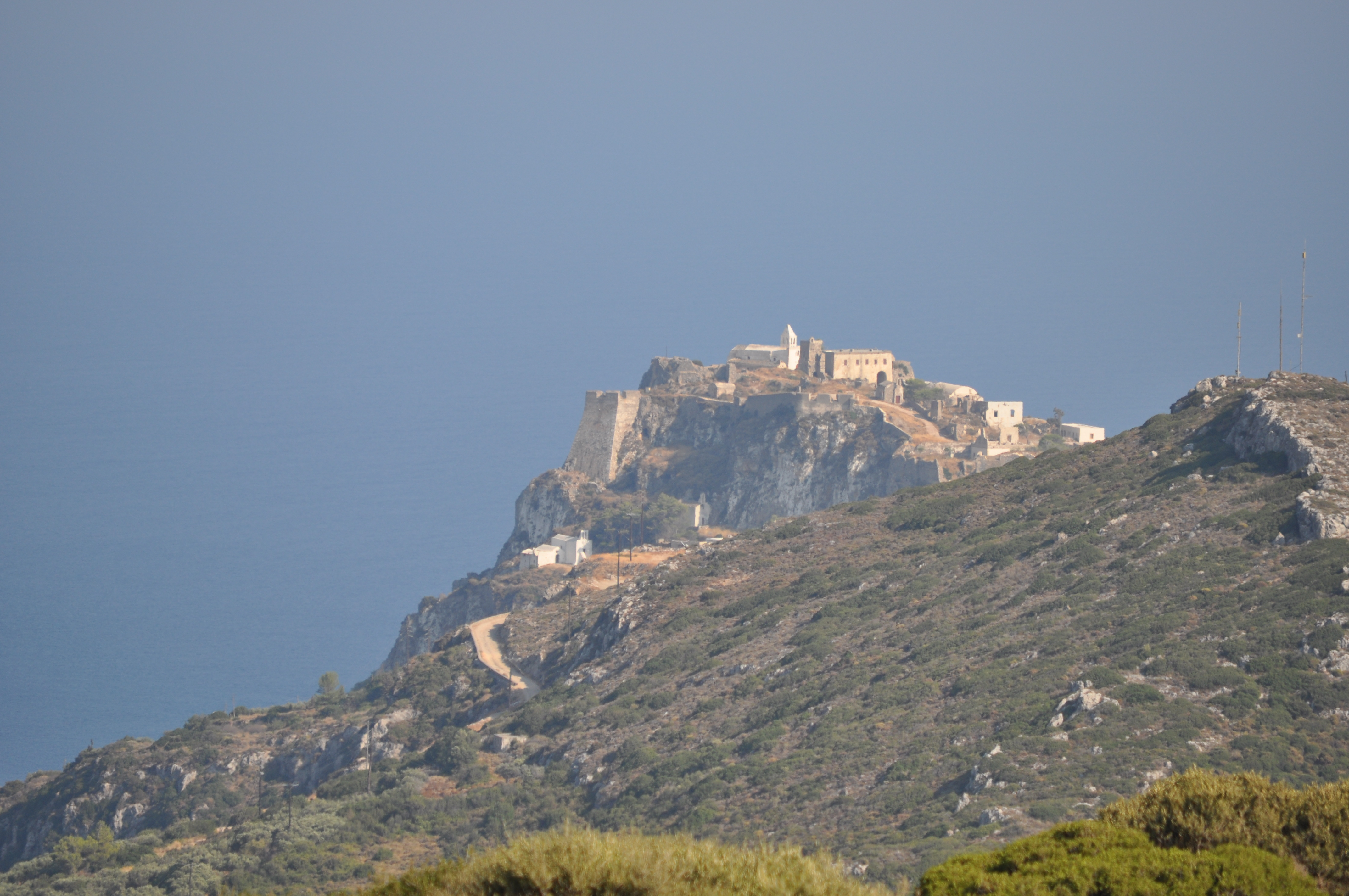 The castle of Chora on Kythera island